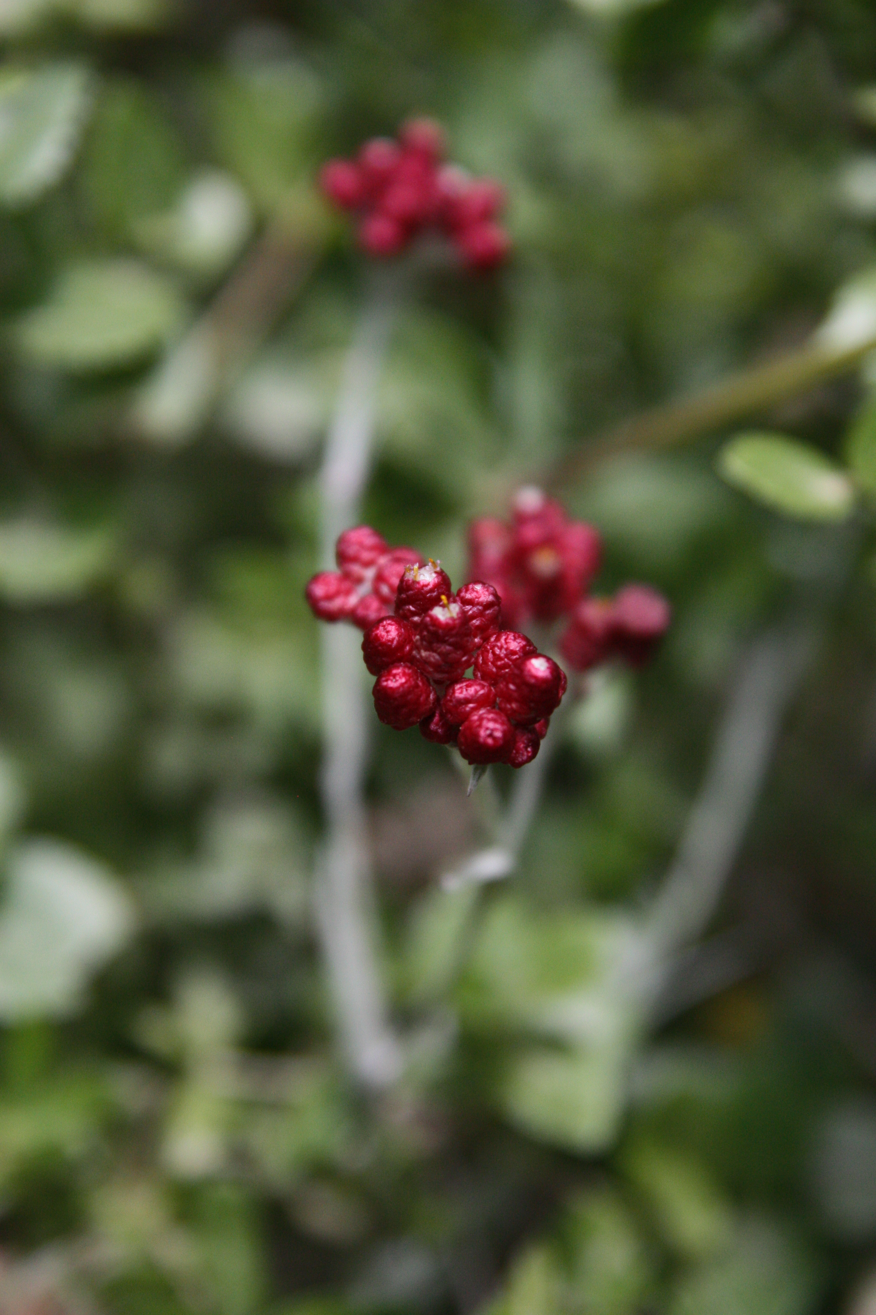 Mount Carmel